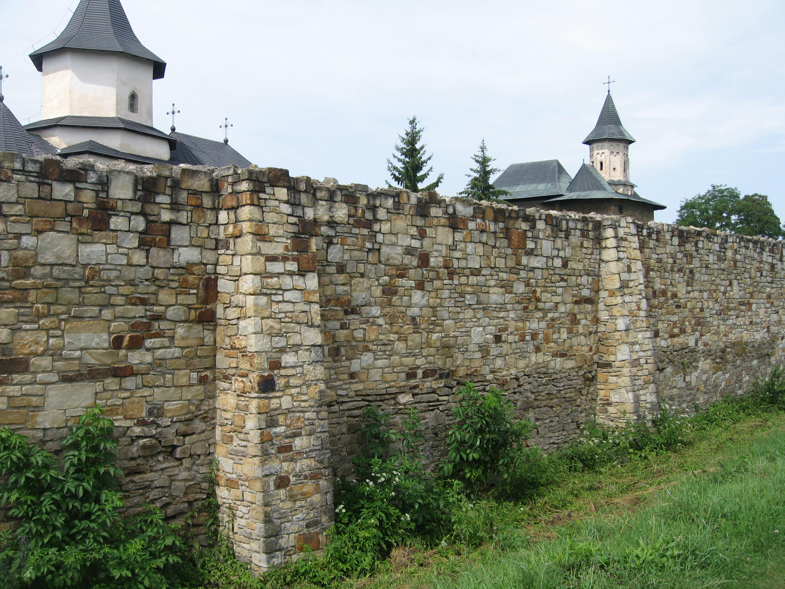 Zamca Monastery in Suceava - wall of enclosure.